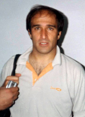 Sirous Dinmohammadi